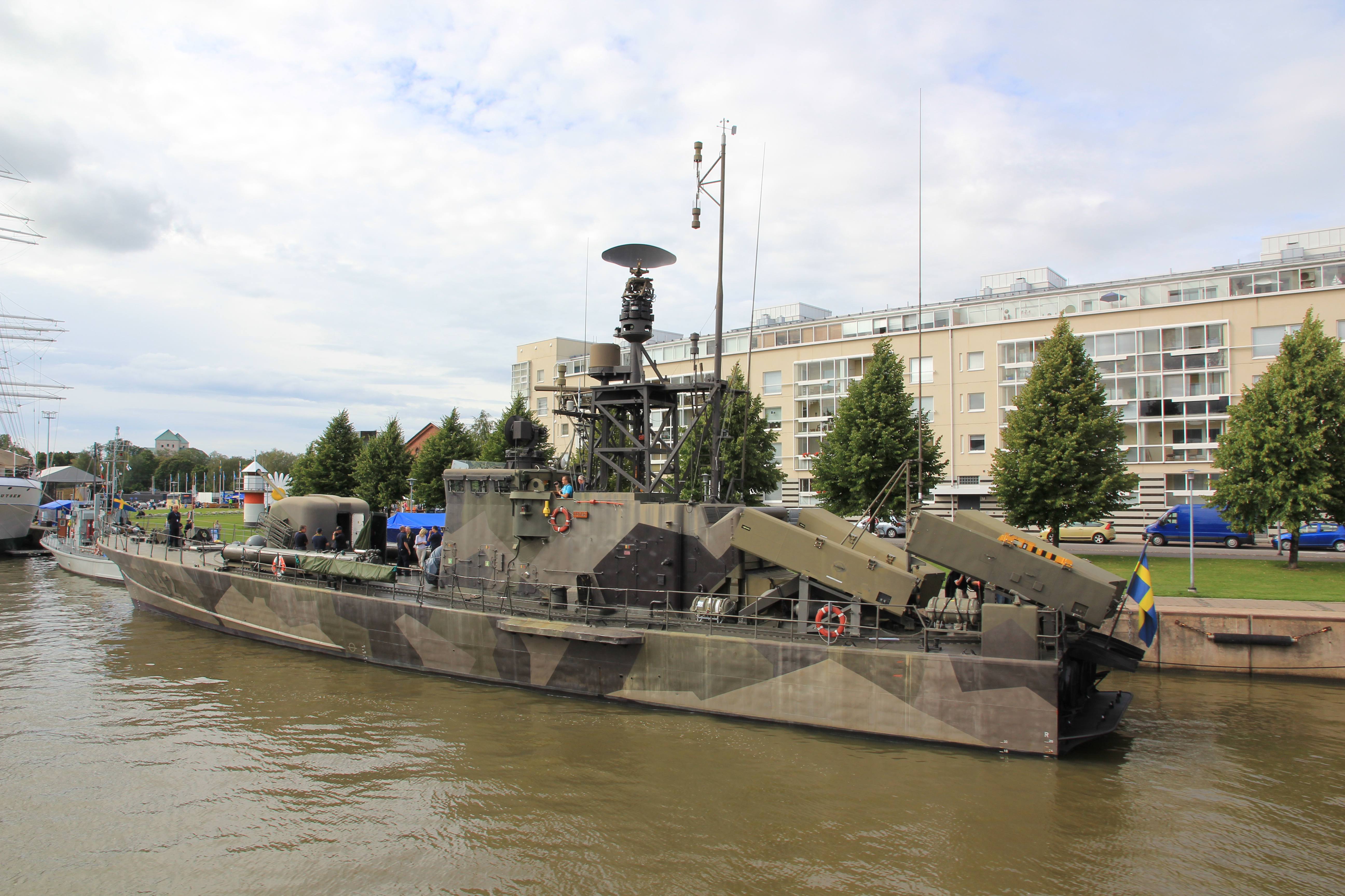 Swedish Veteranflottiljen museum missileboat Ystad (R142) photographed while visiting Forum Marinum maritime museum in Turku.